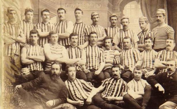 Photograph of the Ballarat Football Club